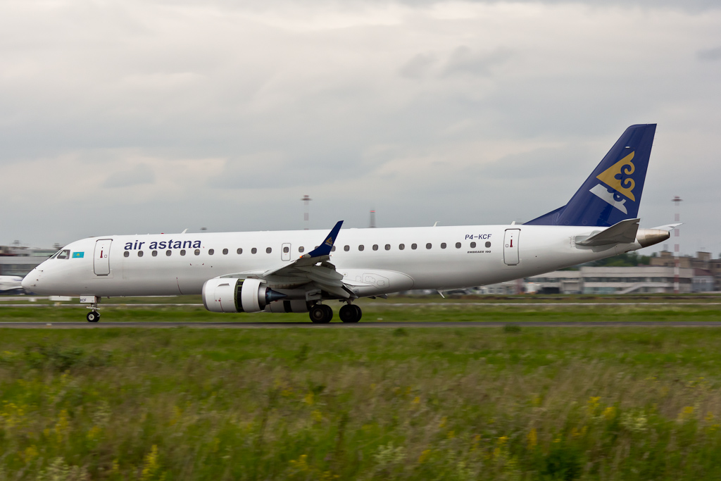 Air Astana plane in Koltsovo